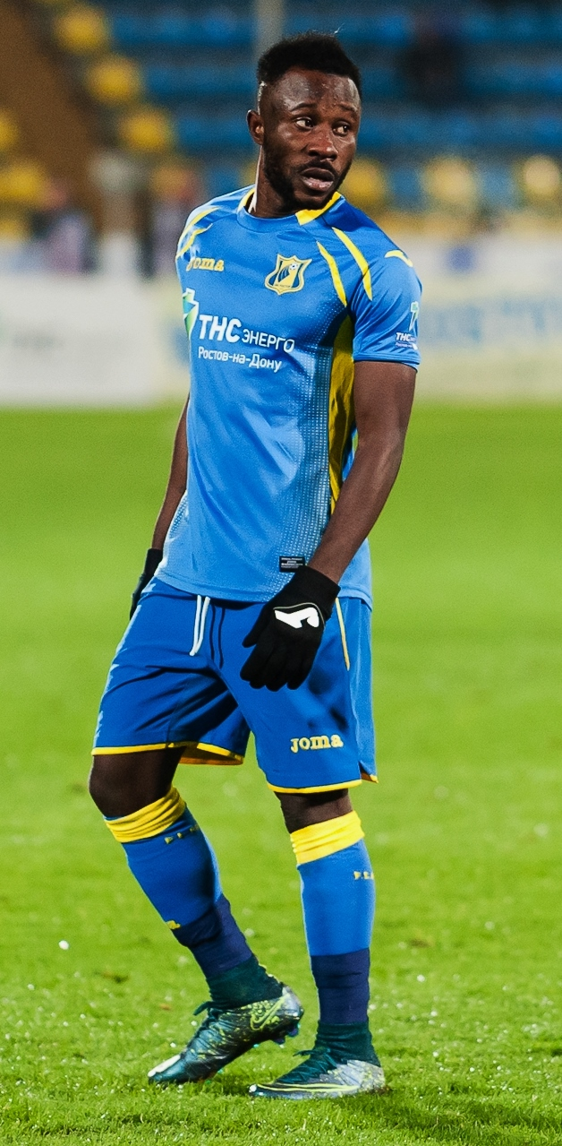 Guélor Kanga